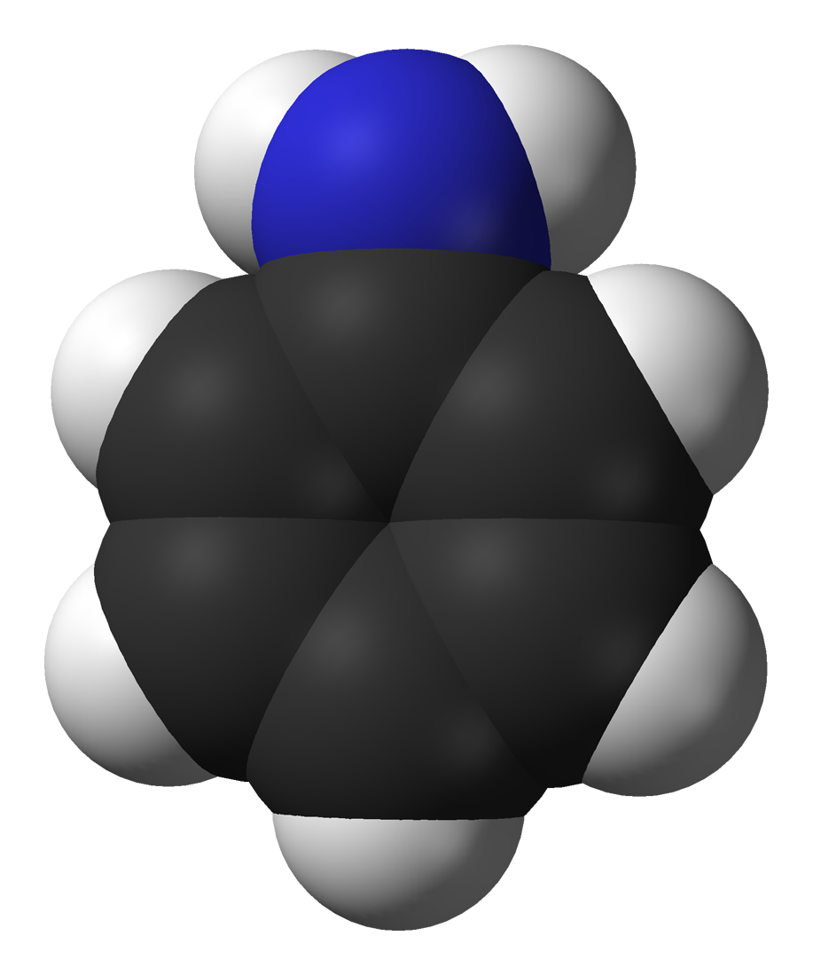 Space-filling model of the aniline molecule, PhNH2. For gas-phase structure determination, see for example Struct. Chem. (1996) 7, 59-71.